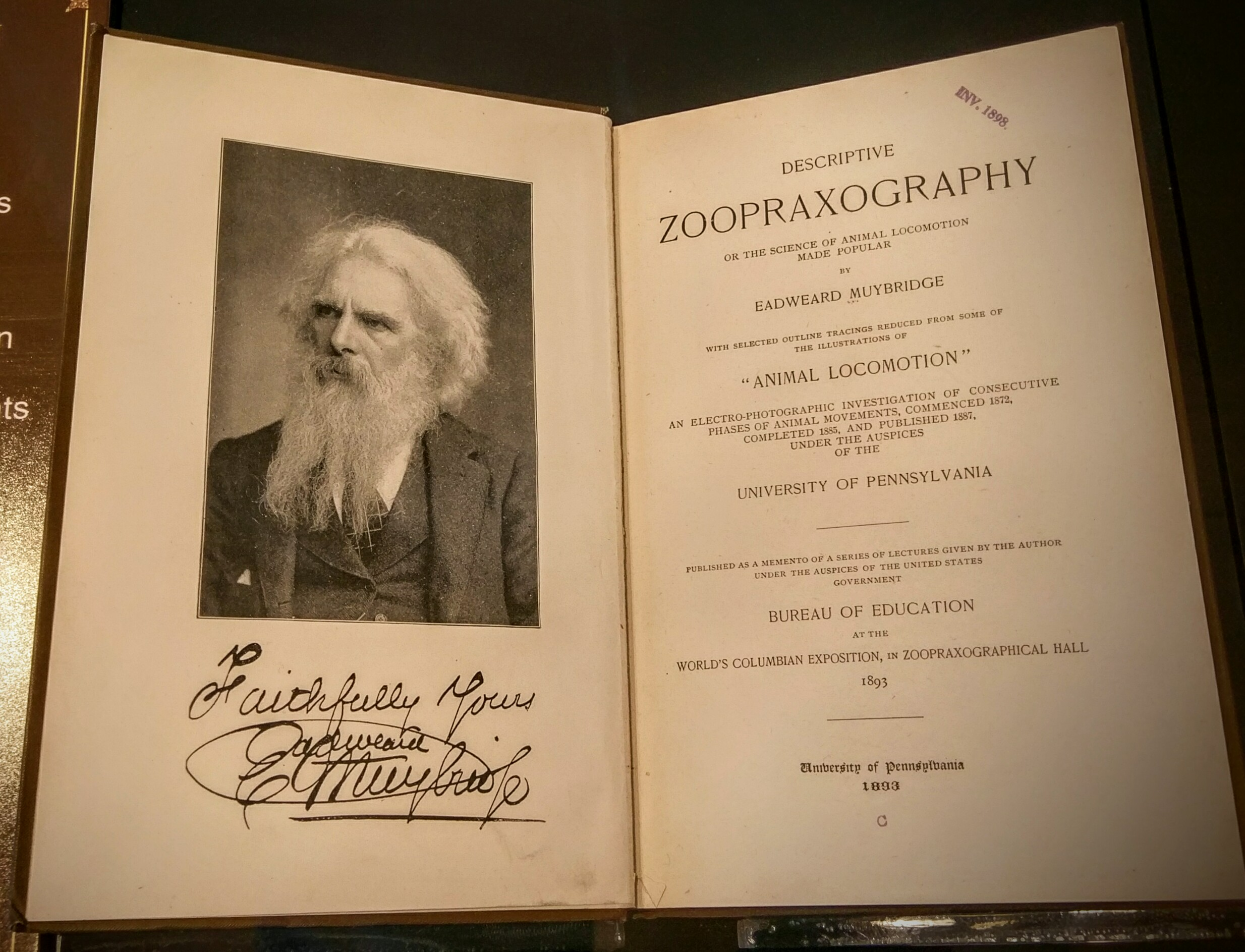 The title page of the first edition of Descriptive Zoopraxography, an 1893 book by Edweard Muybridge. Book owned by the California State Library. Photo by Jim Heaphy.